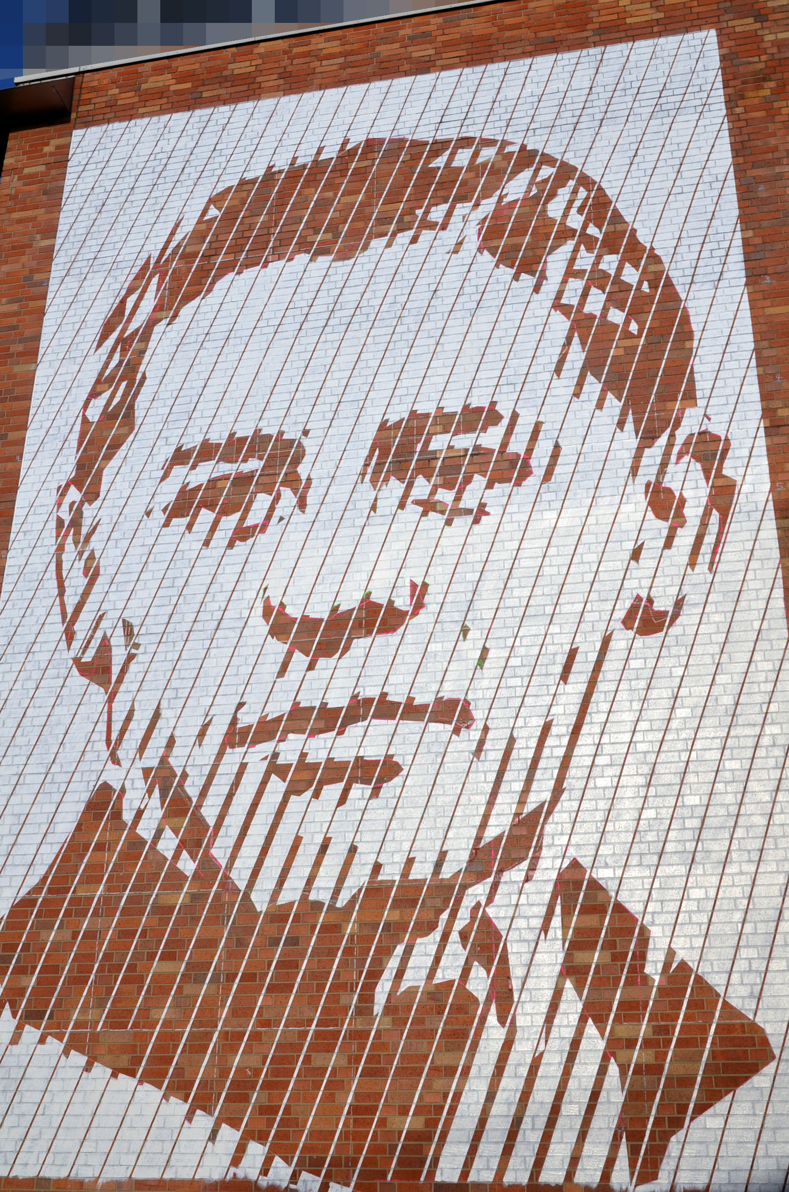 Mural portrait of Helmuth Hübener. This wall artwork was painted by Slava Ostap & Selfmadecrew in the juvenile prison JSA-Plötzensee Berlin 2019.